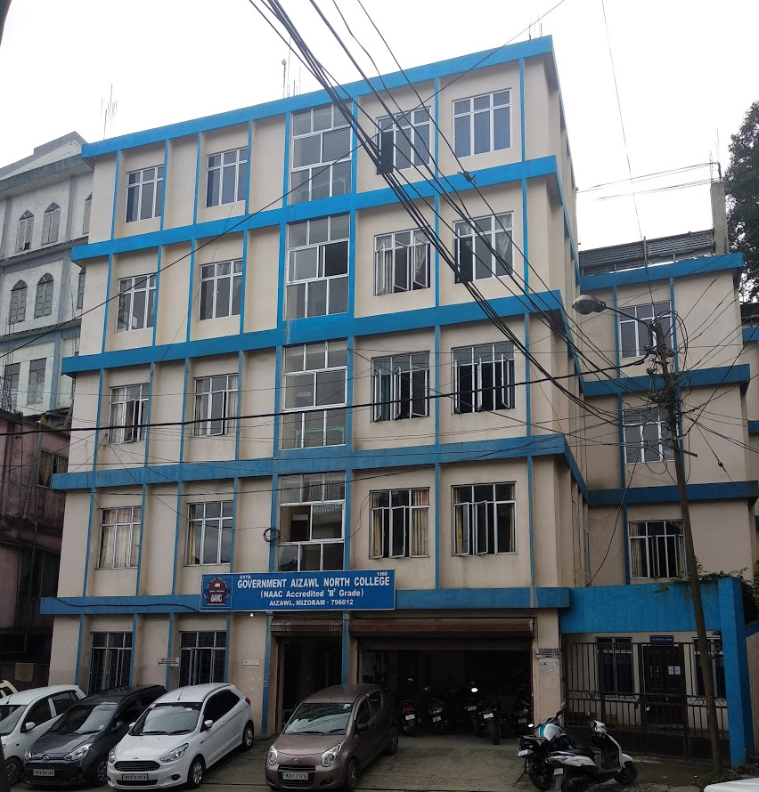 Aizawl North College Building